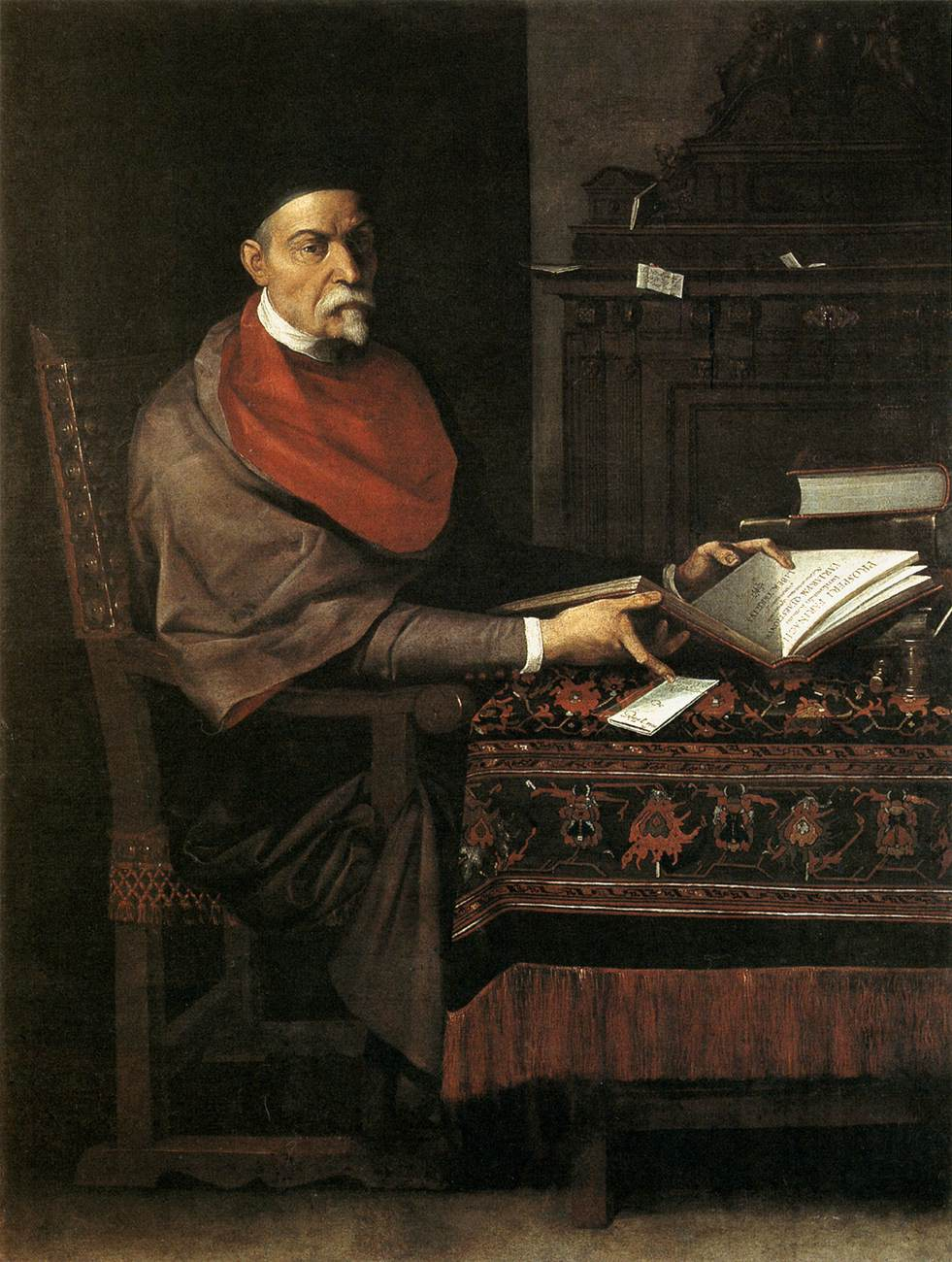 Prospero Farinacci painted by Cavalier d'Arpino